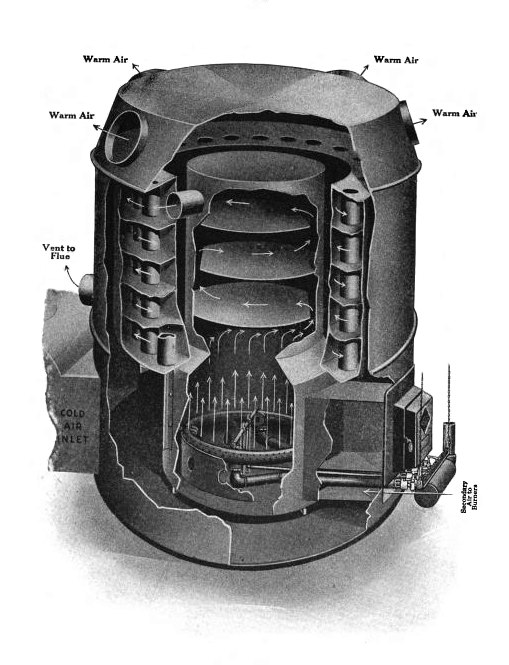 A cutaway diagram of a Lamneck central heating gas furnace.